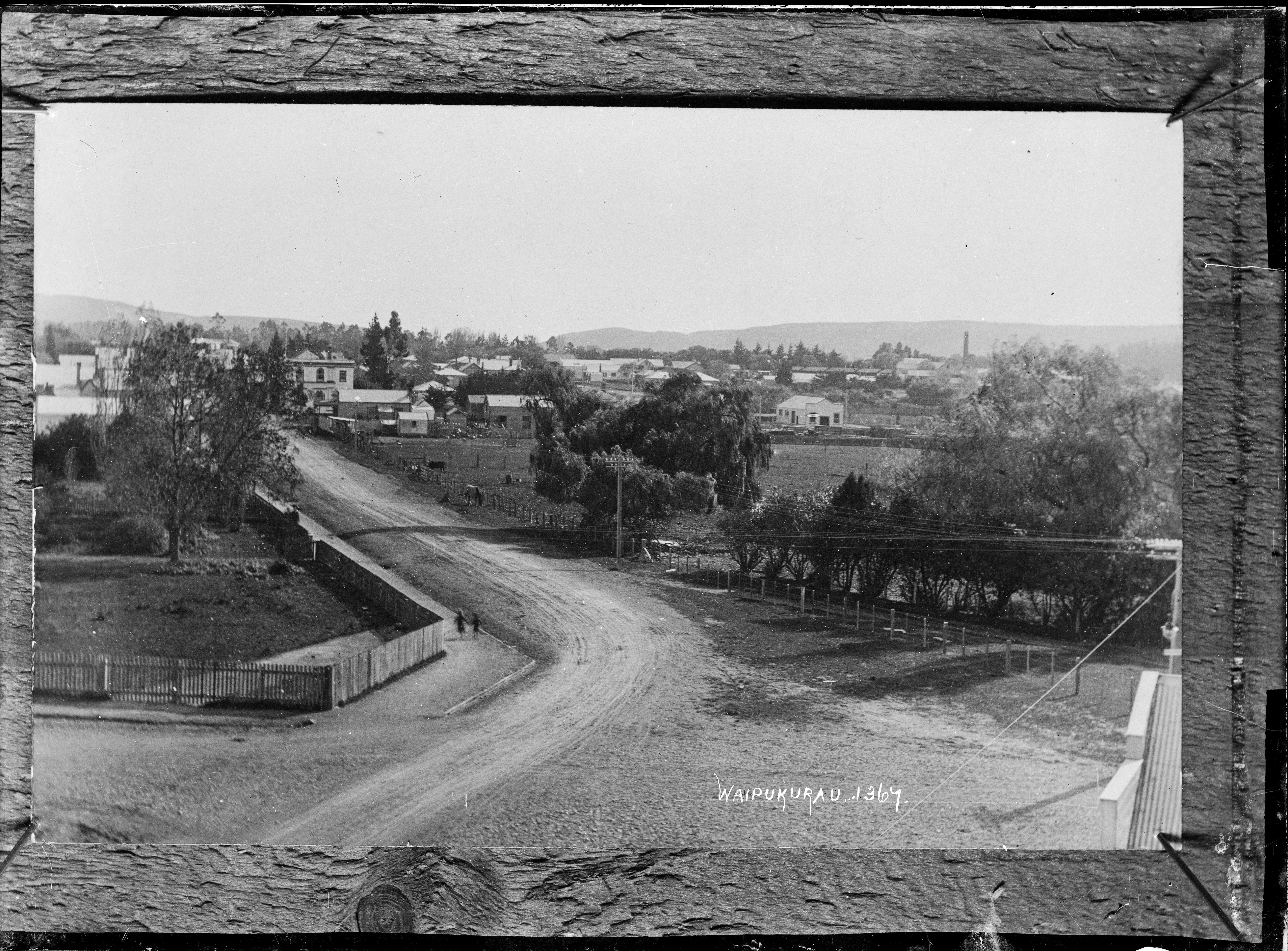 View along a road leading into Waipukurau. Photograph taken by William Archer Price, circa 1910s Inscriptions: Inscribed - Photographer's title on negative -bottom right: Waipukurau. 1367. Quantity: 1 b&w original negative(s). Physical Description: Dry plate glass negative 4.5 x 6.5 inches Waipukurau township. Price, William Archer, 1866-1948 :Collection of post card negatives. Ref: 1/2-000221-G. Alexander Turnbull Library, Wellington, New Zealand.